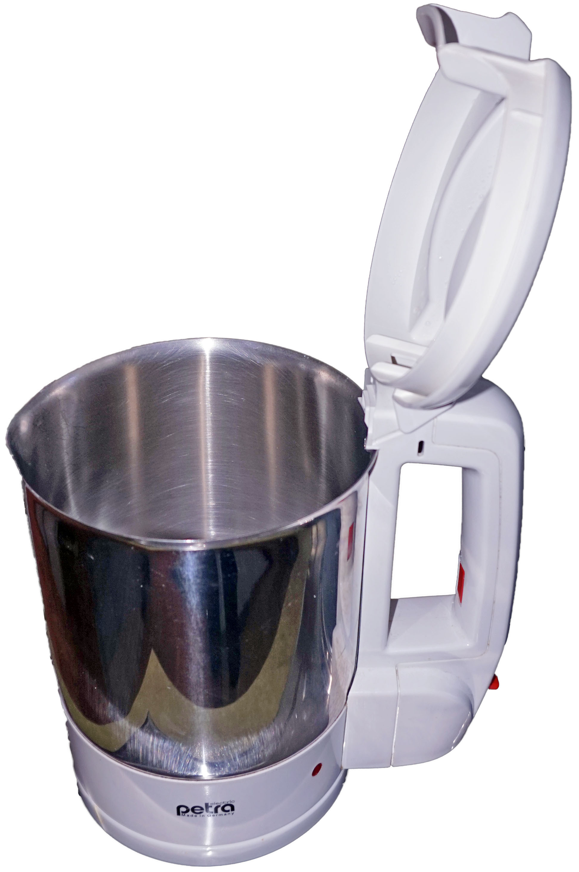 Electric kettle Petra in Germany.This photograph was taken with a Sony ILCE-5000